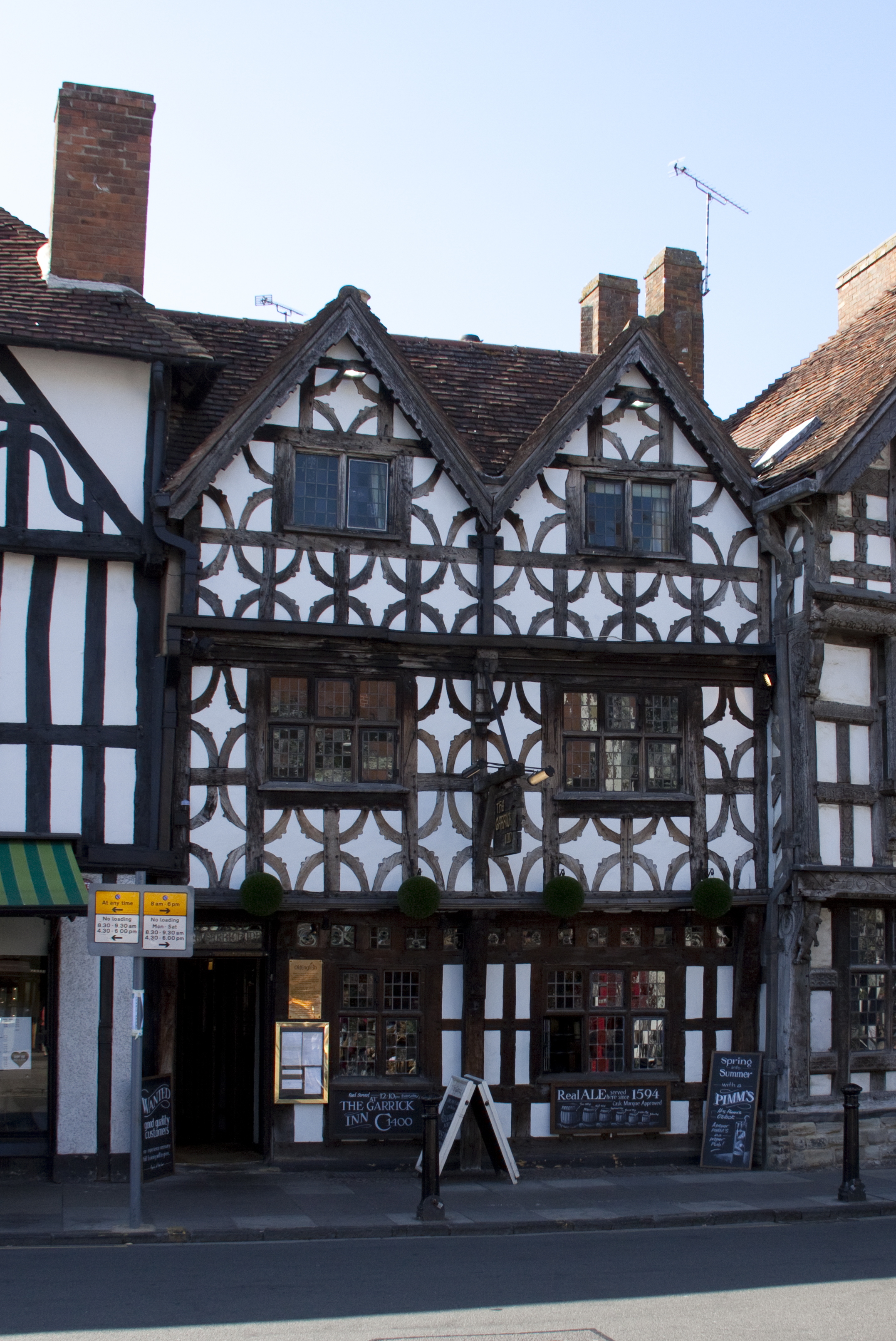 Tudor Timber-framed public house. Built around 1596.